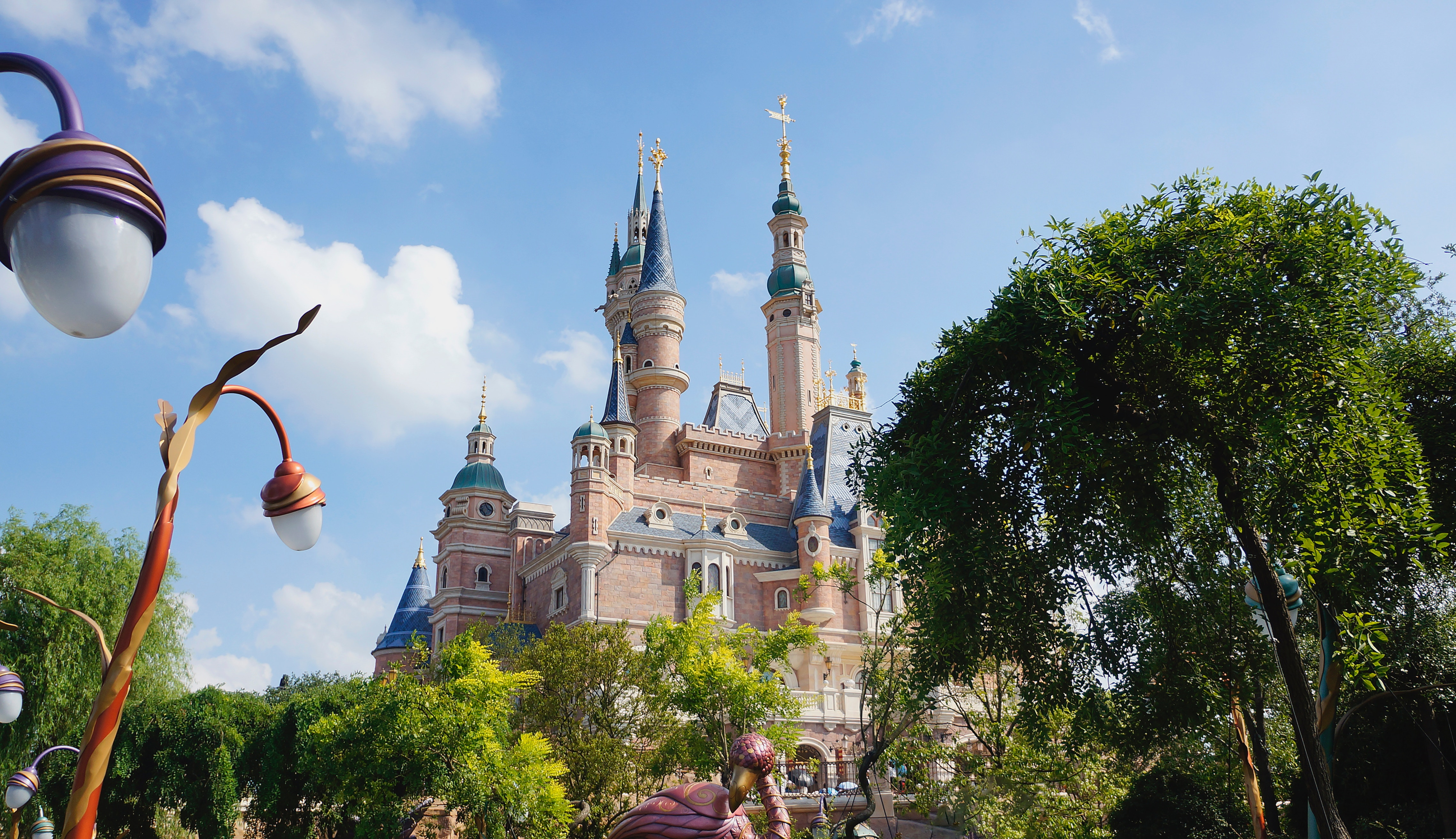 Enchanted Storybook Castle at Shanghai Disneyland